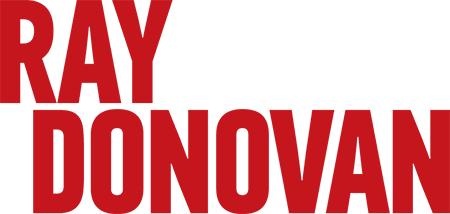 This is a logo for the Showtime television crime drama, Ray Donovan.